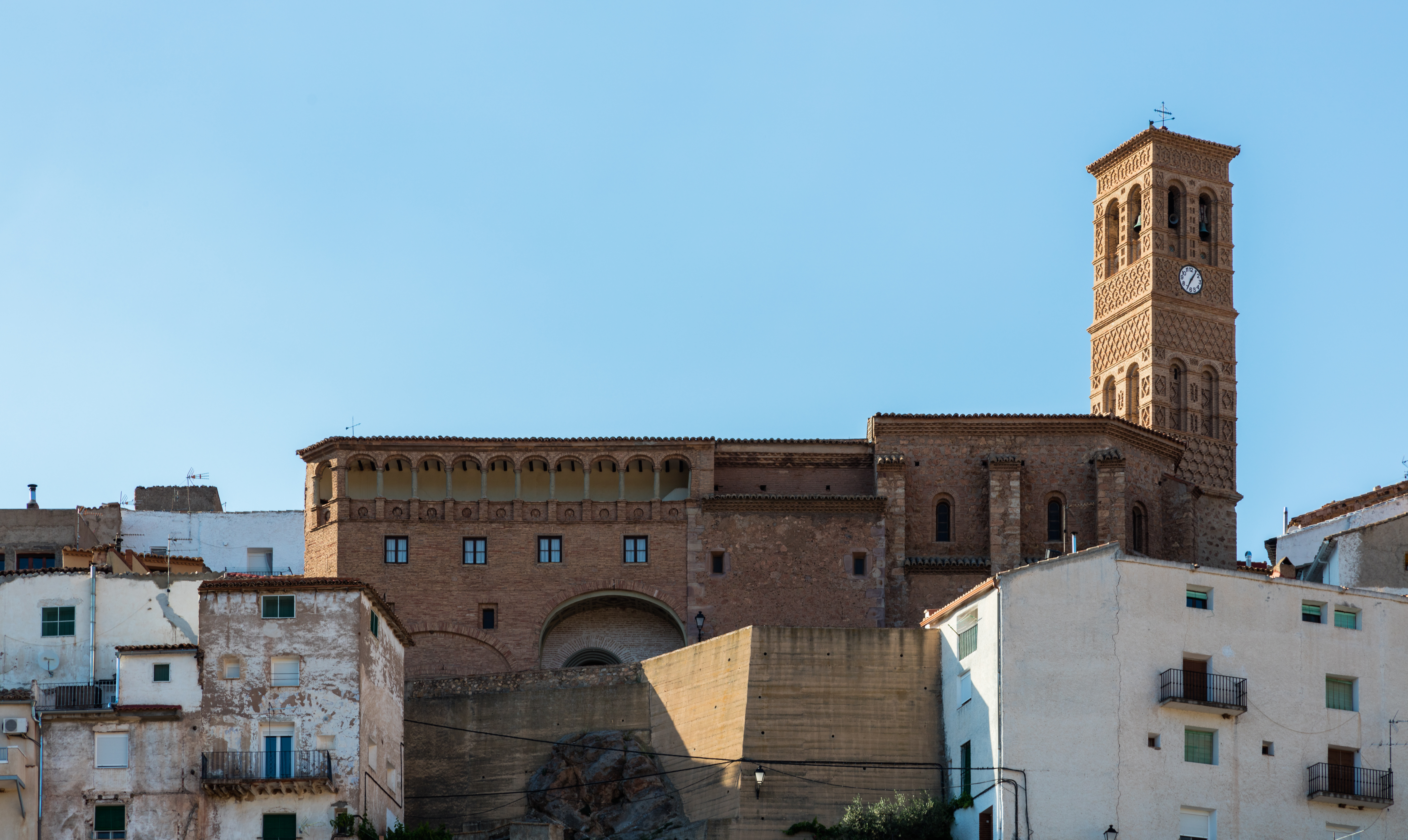 Church of St John the Baptist, Tierga, Saragossa, Spain